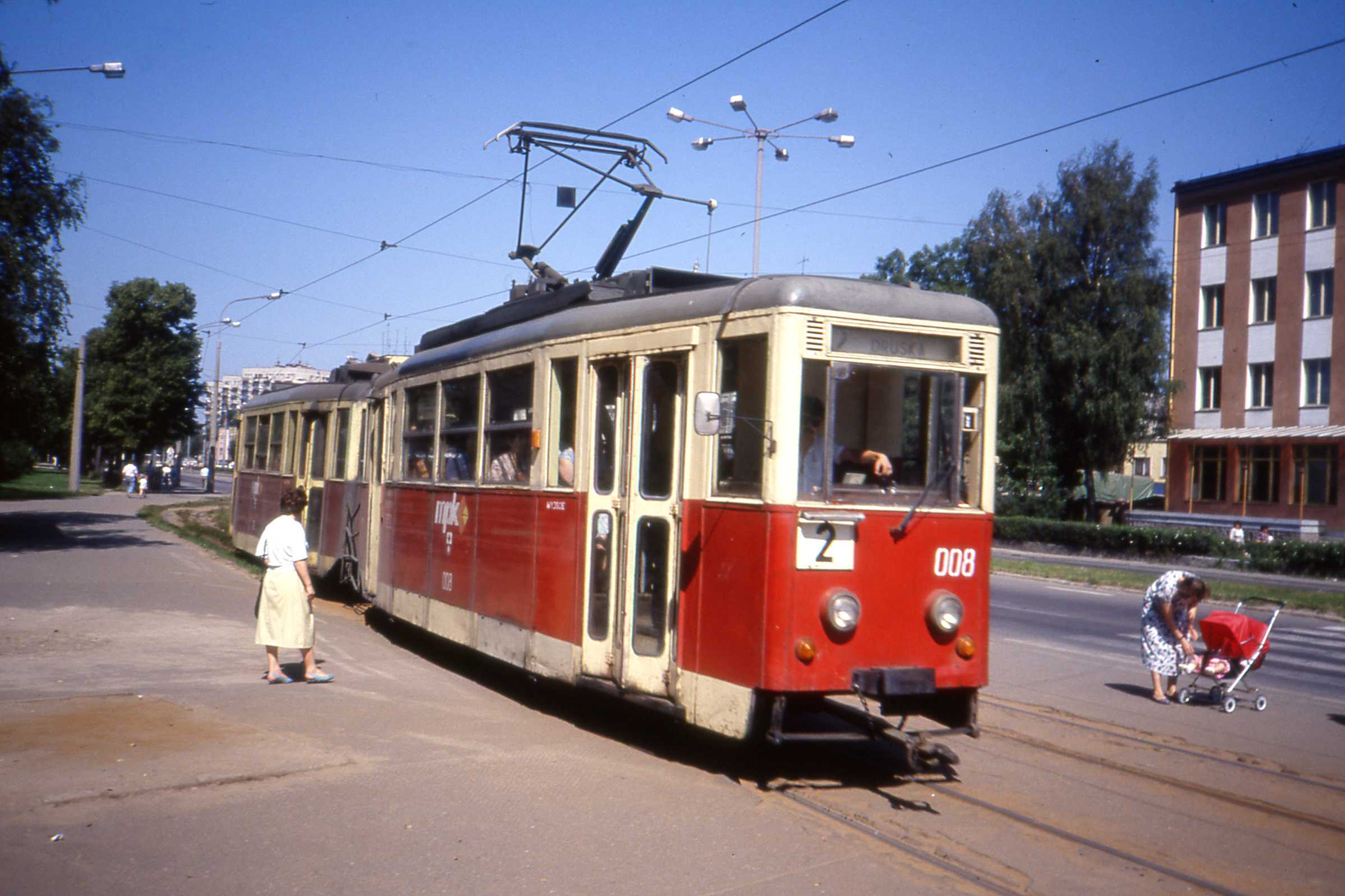 Elbląg N1 motor car 008 and less brightly painted trailer car wait at the Dworzec Glowny (main railway station). This terminius is known as Druska, after the street, Ulice Druska.. Folding doors have been fitted to these vehicles.